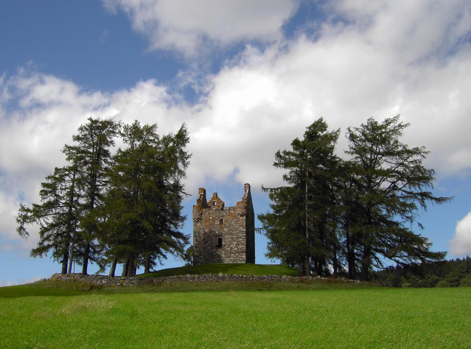 The Knock.